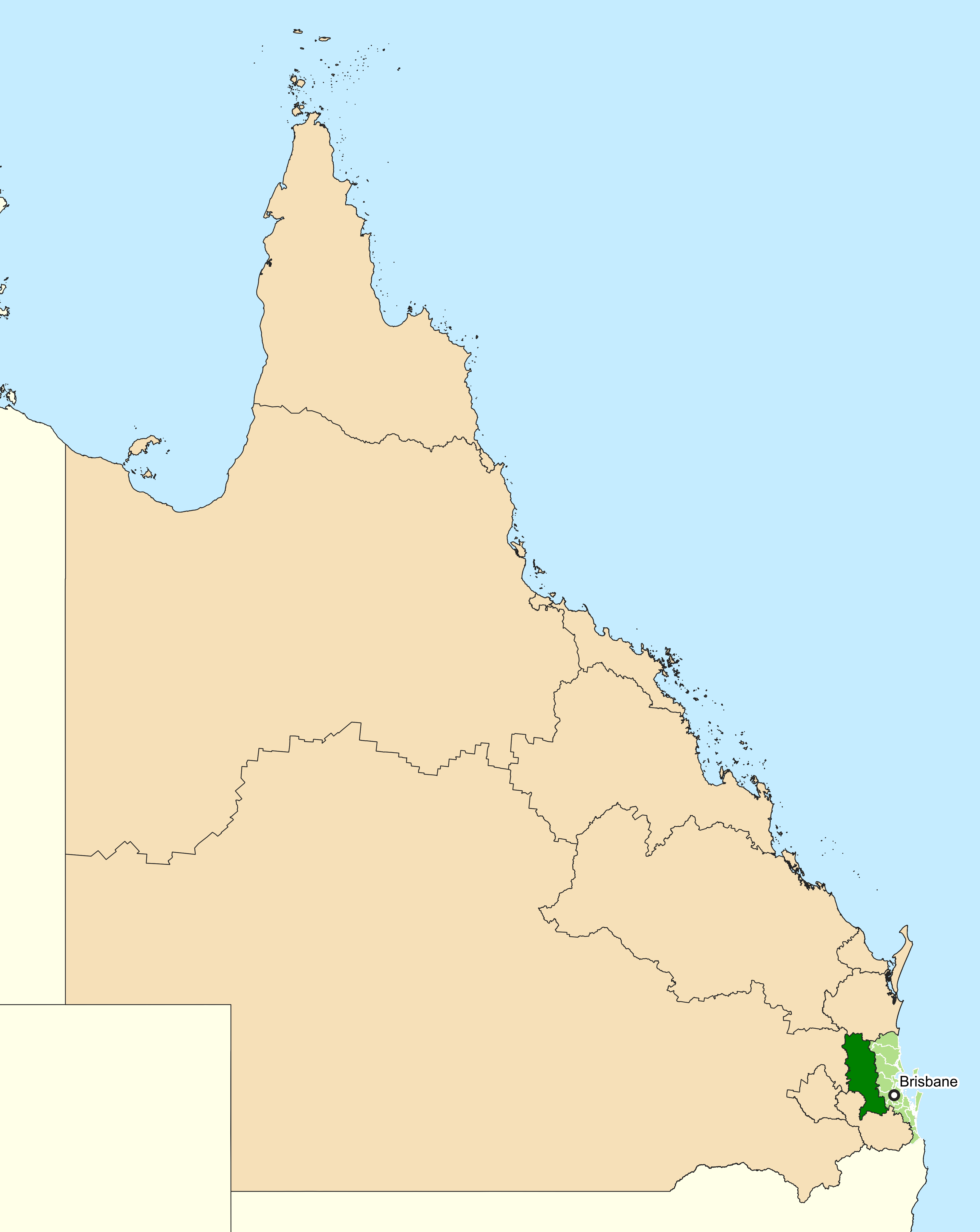 Location of the Australian federal electoral division of Blair (dark green) in Queensland as of the 2019 Australian federal election. Incorporates or developed using Administrative Boundaries ©PSMA Australia Limited licensed by the Commonwealth of Australia under Creative Commons Attribution 4.0 International licence (CC BY 4.0).